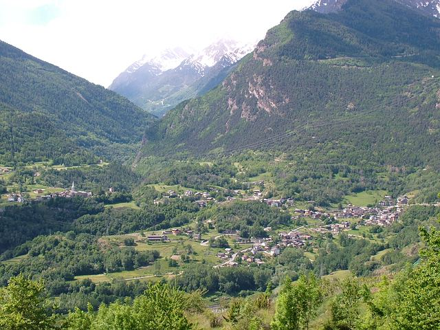 Overview of Introd (Aosta Valley, Italy)